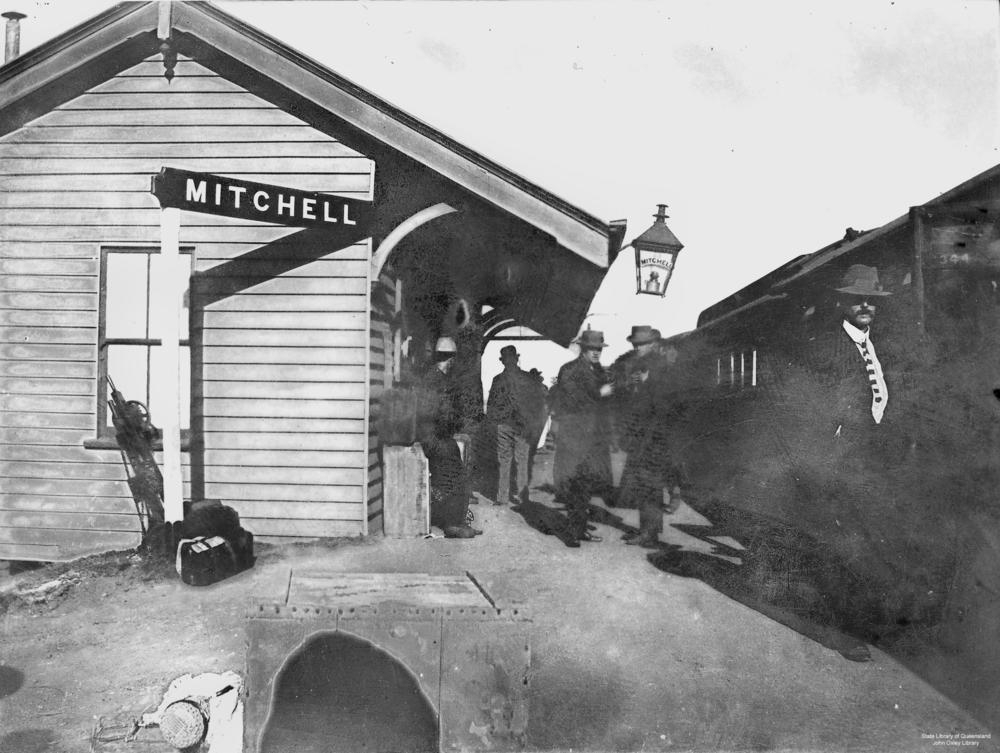 Railway Station at Mitchell Queensland